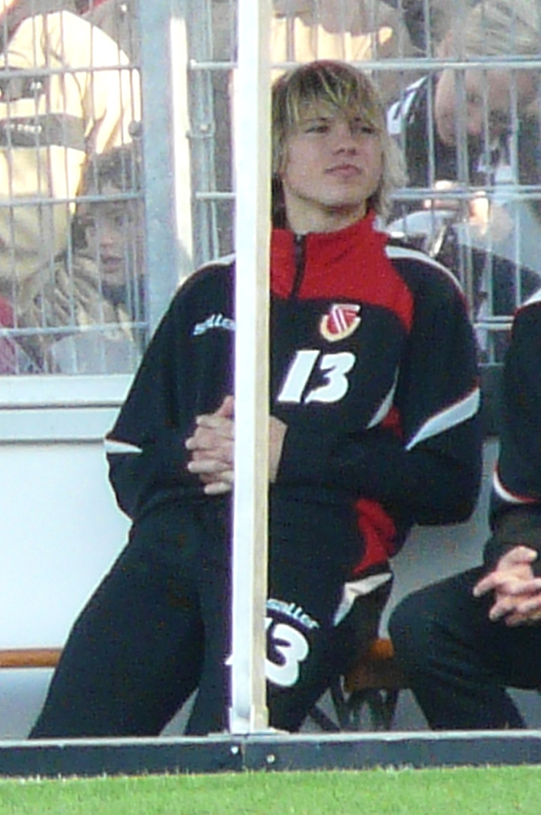 Julian Börner as Player from Energie Cottbus